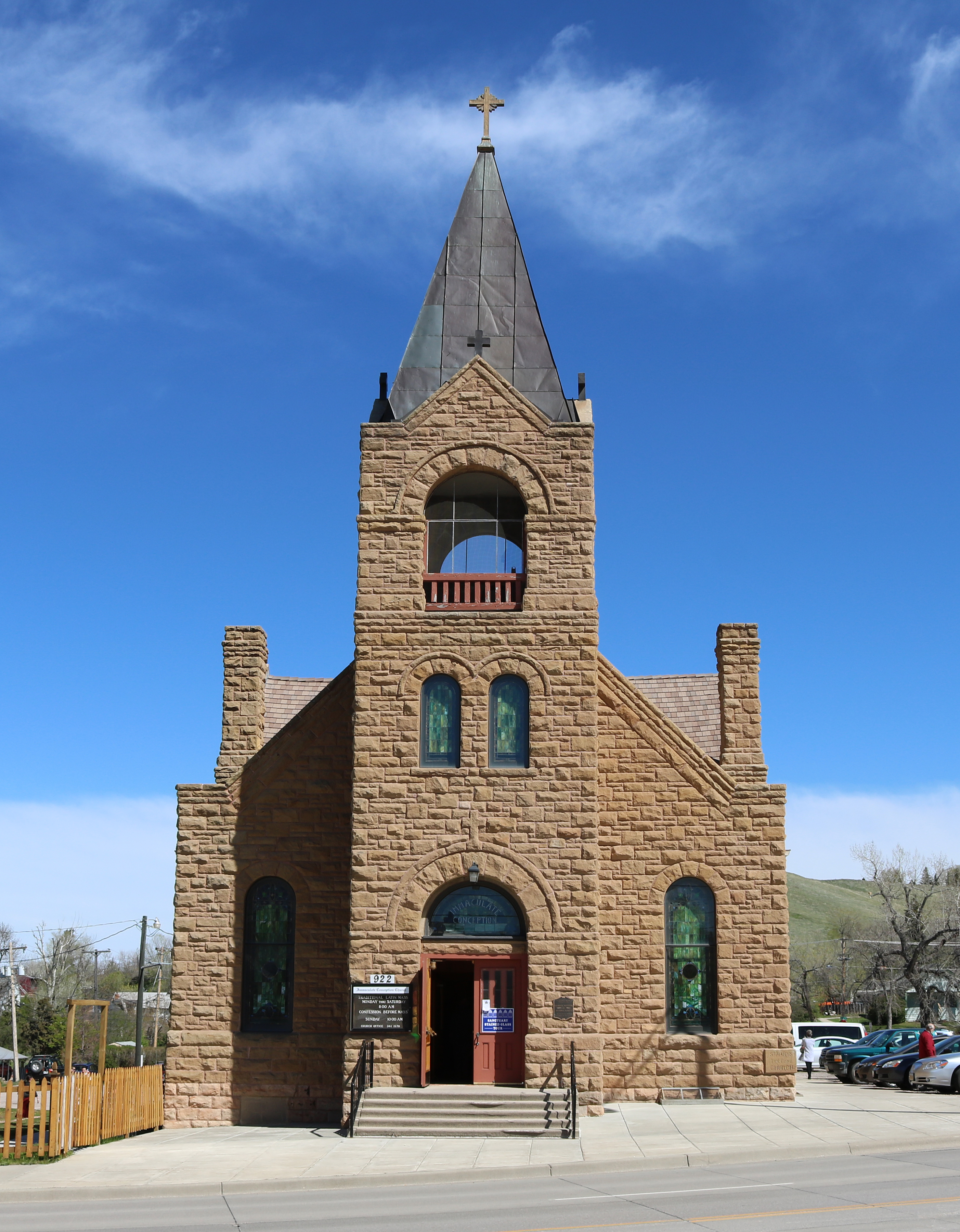 The Church of the Immaculate Conception, located at 918 5th Street in Rapid City, South Dakota. The property is listed on the National Register of Historic Places.